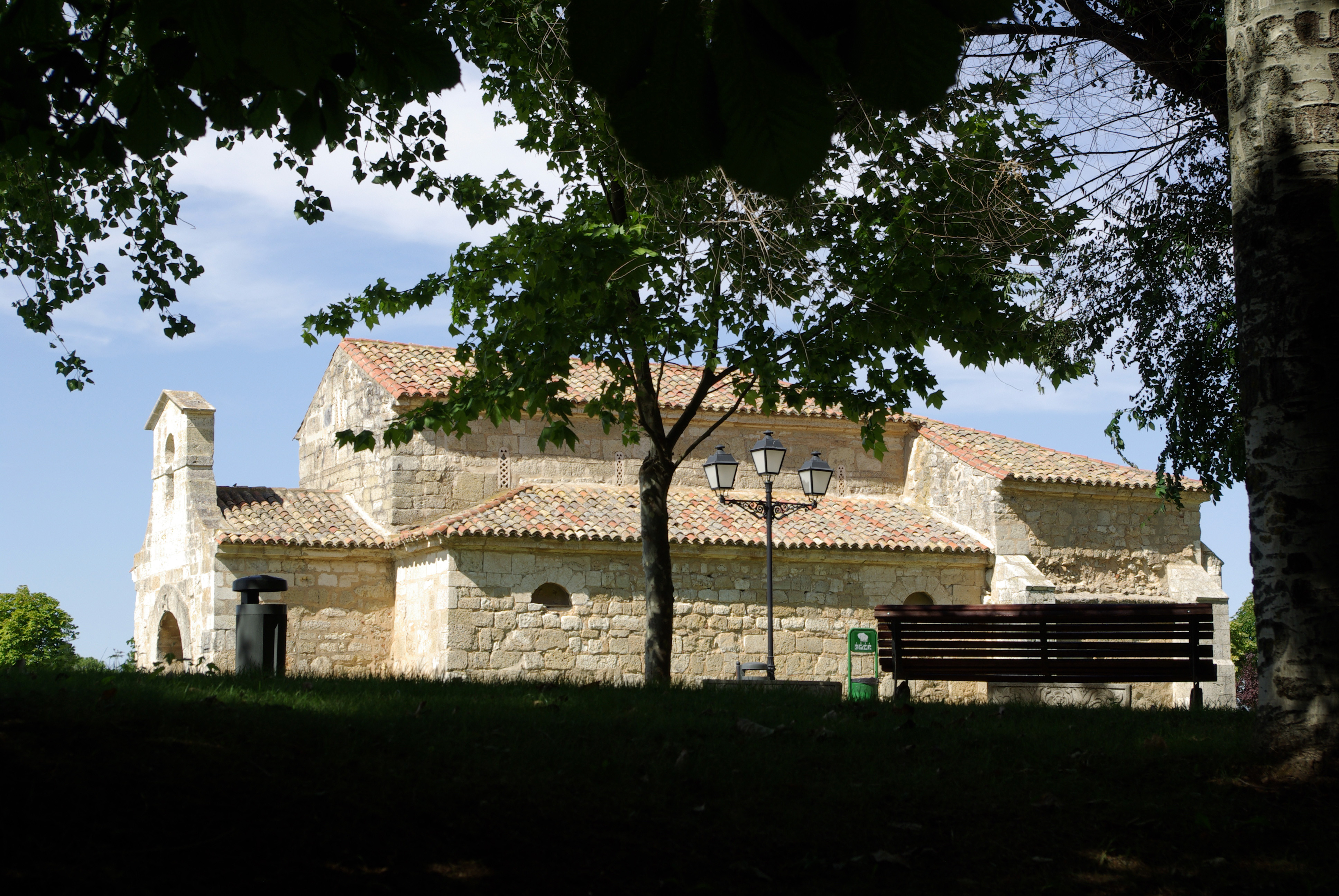 Church of San Juan Bautista in Baños de Cerrato, Venta de Baños. (Palencia, Spain)